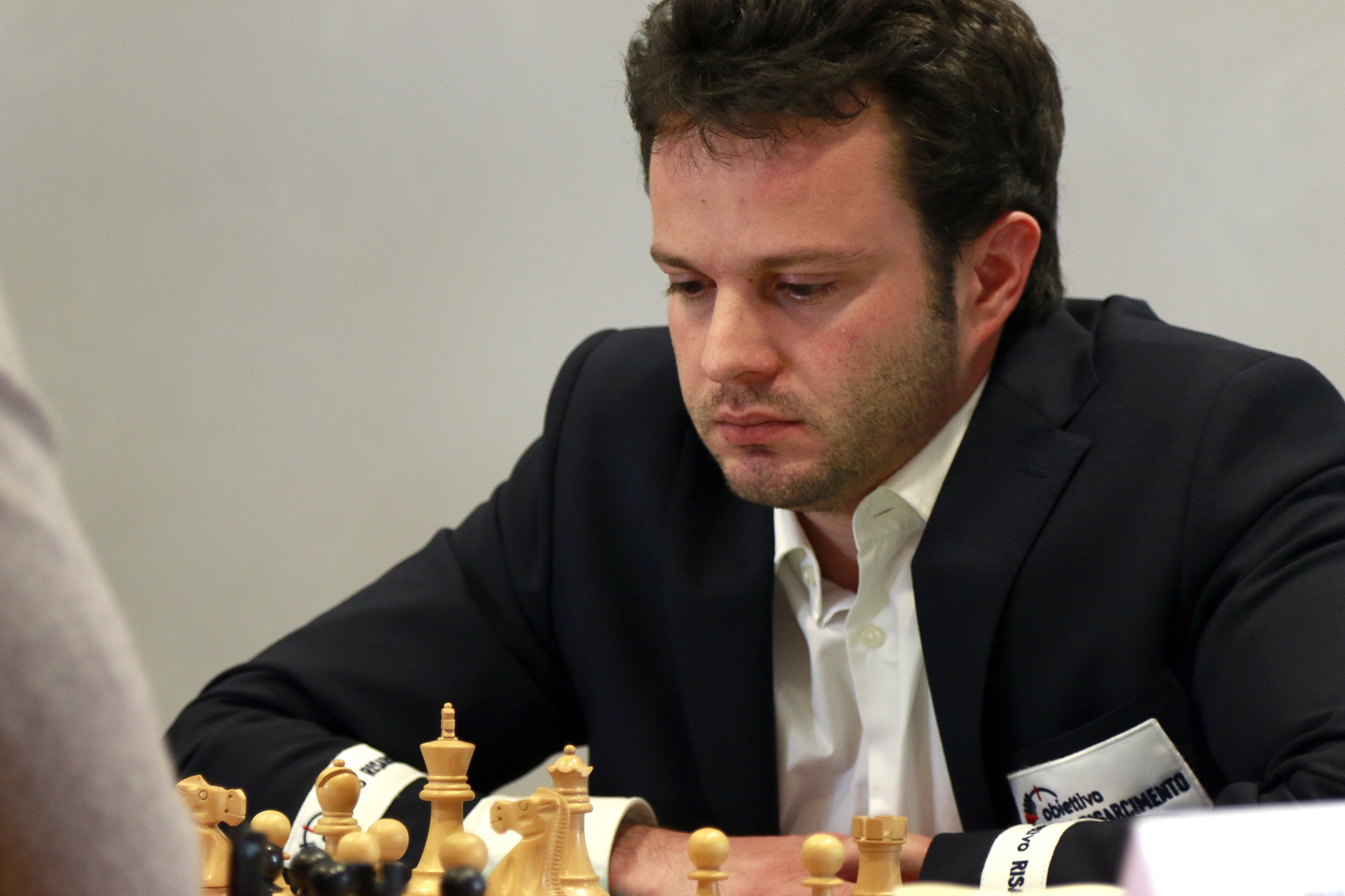 Étienne Bacrot. French chess Grandmaster. Italian Team Championship, Civitanova Marche (Italy), April 29th/May 3rd, 2015.